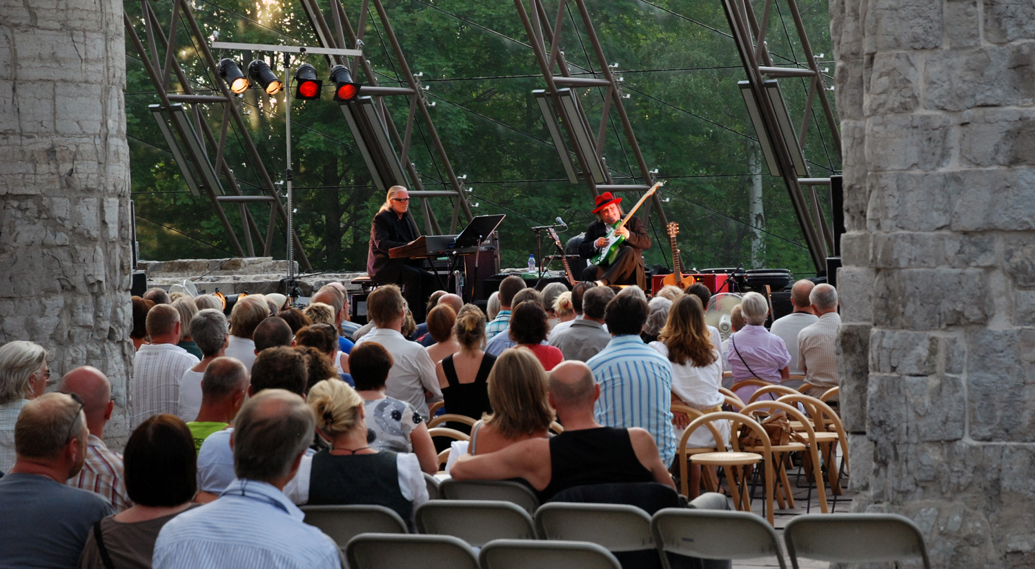 Iver Kleive and Knut Reiersrud live in Hamardomen at Hamar Music Festival 2009.